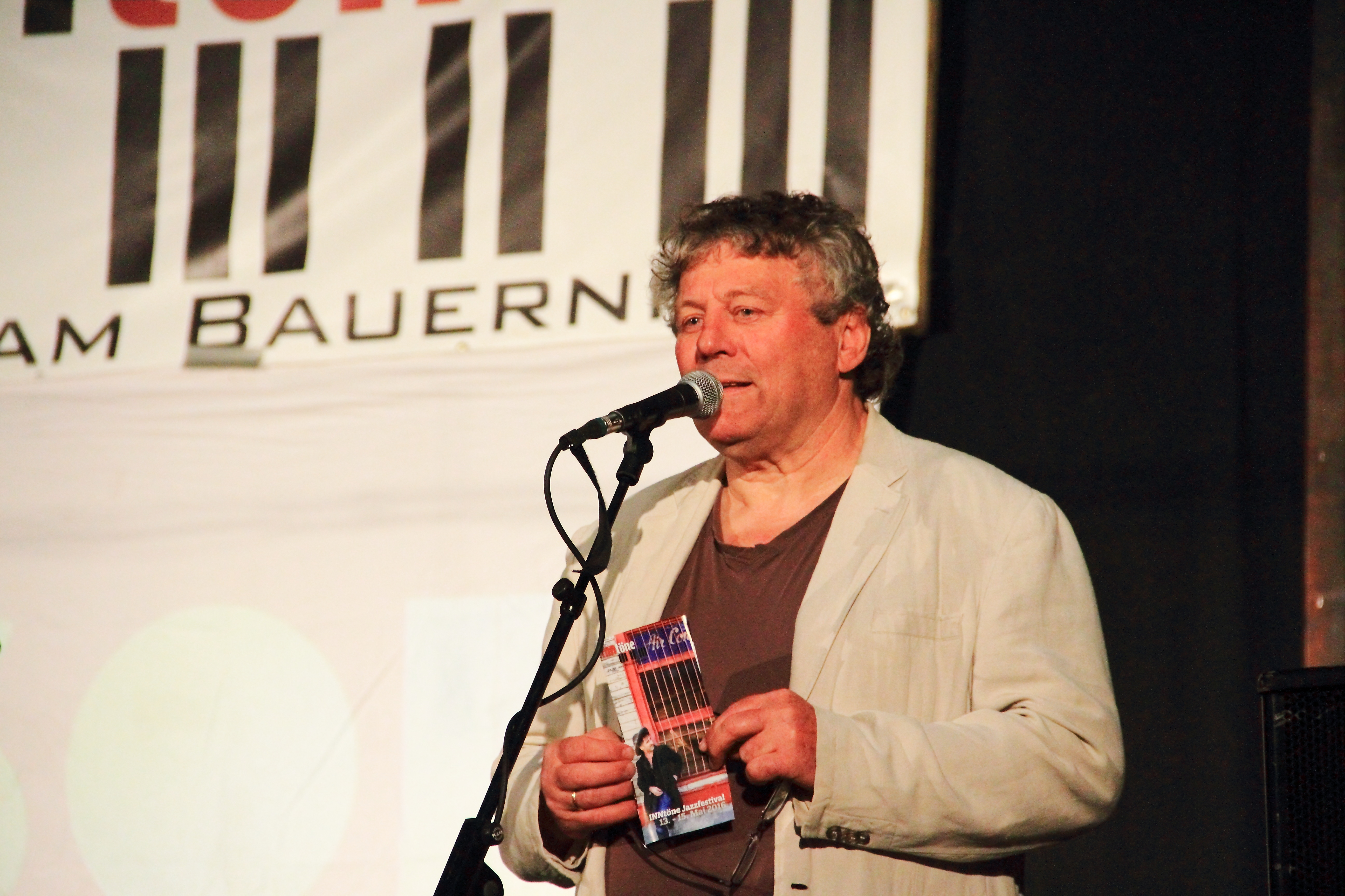 Paul Zauner welcomes musicians and guests at INNtöne Jazzfestival, Austria 2016.